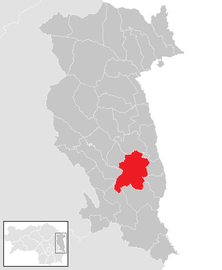 district Hartberg-Fürstenfeld